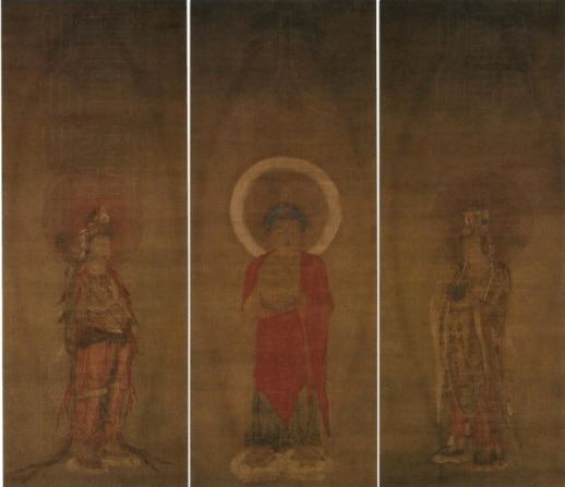 Amida Trinity (絹本著色阿弥陀三尊像 kenpon chakushoku amida sansonzō) by Fuetsu (普悦). Three hanging scrolls, colors on silk, from the Southern Song Dynasty. Custody of Kyoto National Museum. Owner: Shōjōke-in, Kyoto.